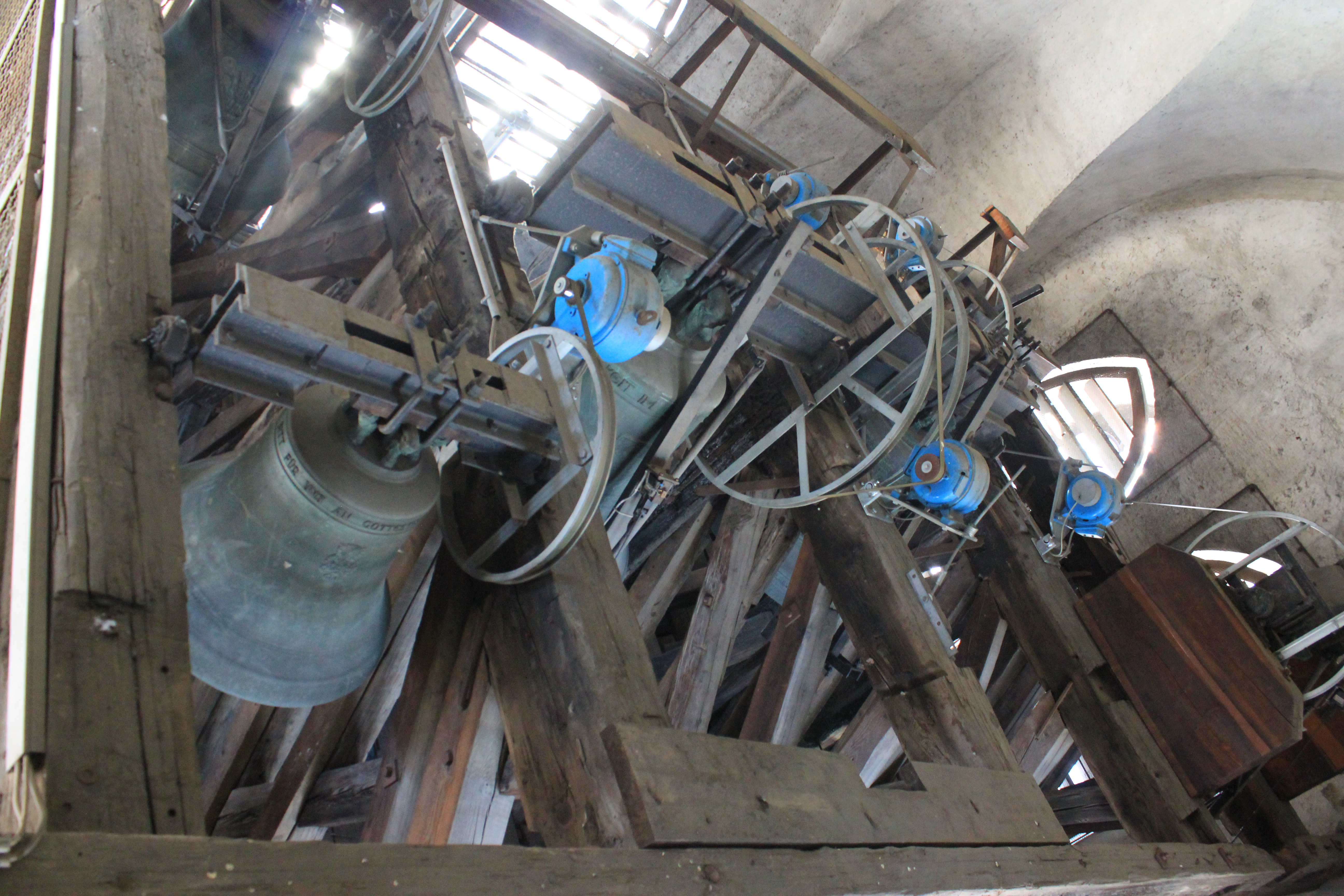 Parish church St. Jakob in Villach - Church bell